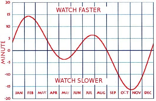 Equation of time with english labels